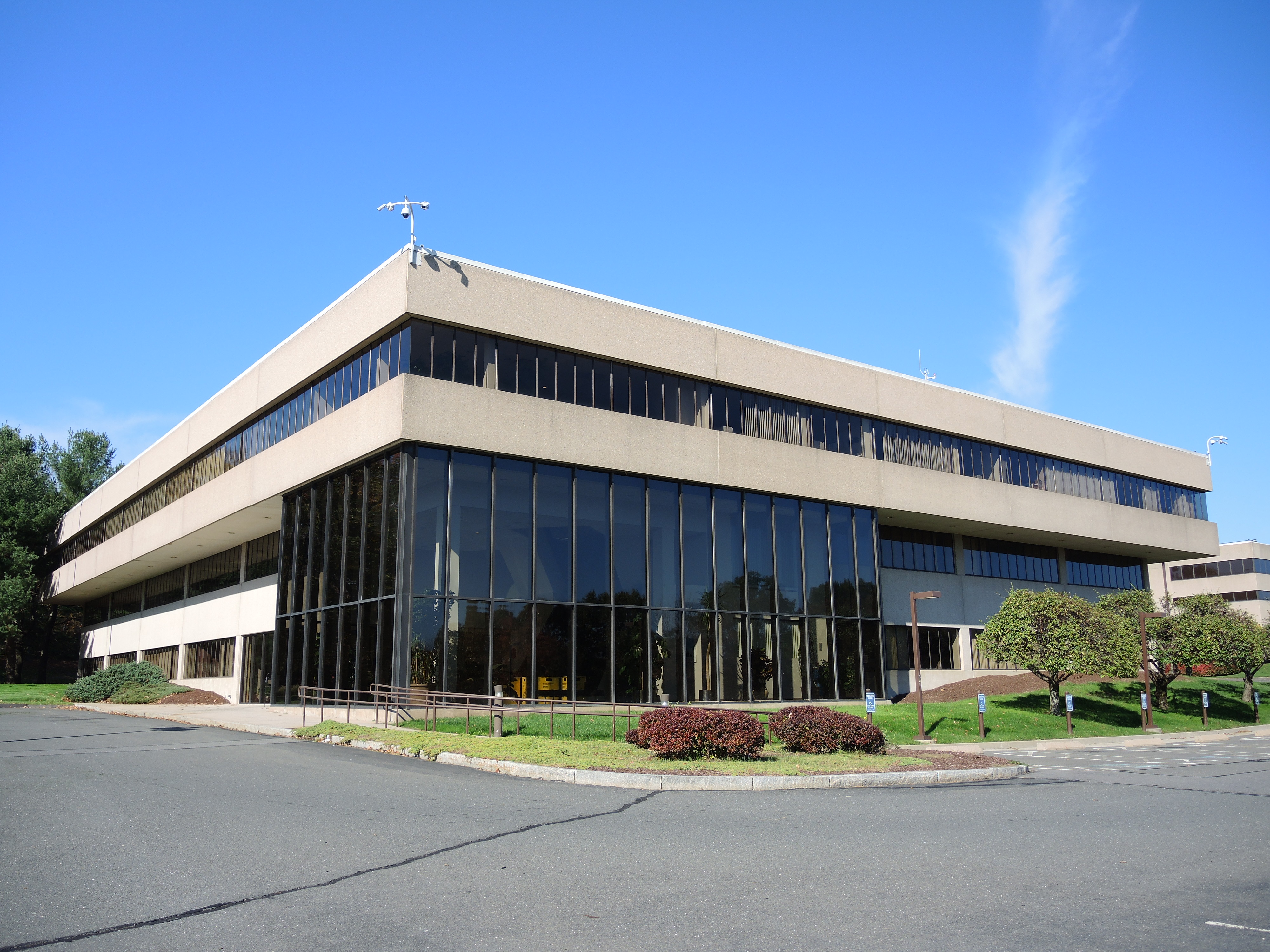 Former Otis Elevator Company North America headquarters in Farmington, Connecticut